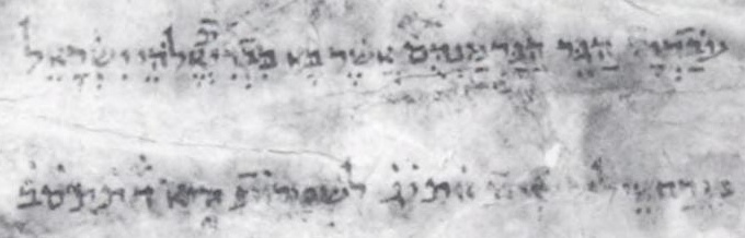 Cairo Geniza - Obadiah the Proselyte, Document I - colophon of a prayer-book (HUC fragment 8) text1: "Obadiah the Norman Proselyte who entered the covenant of the God of Israel in the month of Ellul, year 1413 of Documents which is 4862 of Creation"